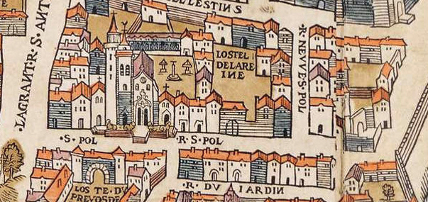 Saint-Paul street on the Plan de Truschet and Hoyau (1550).